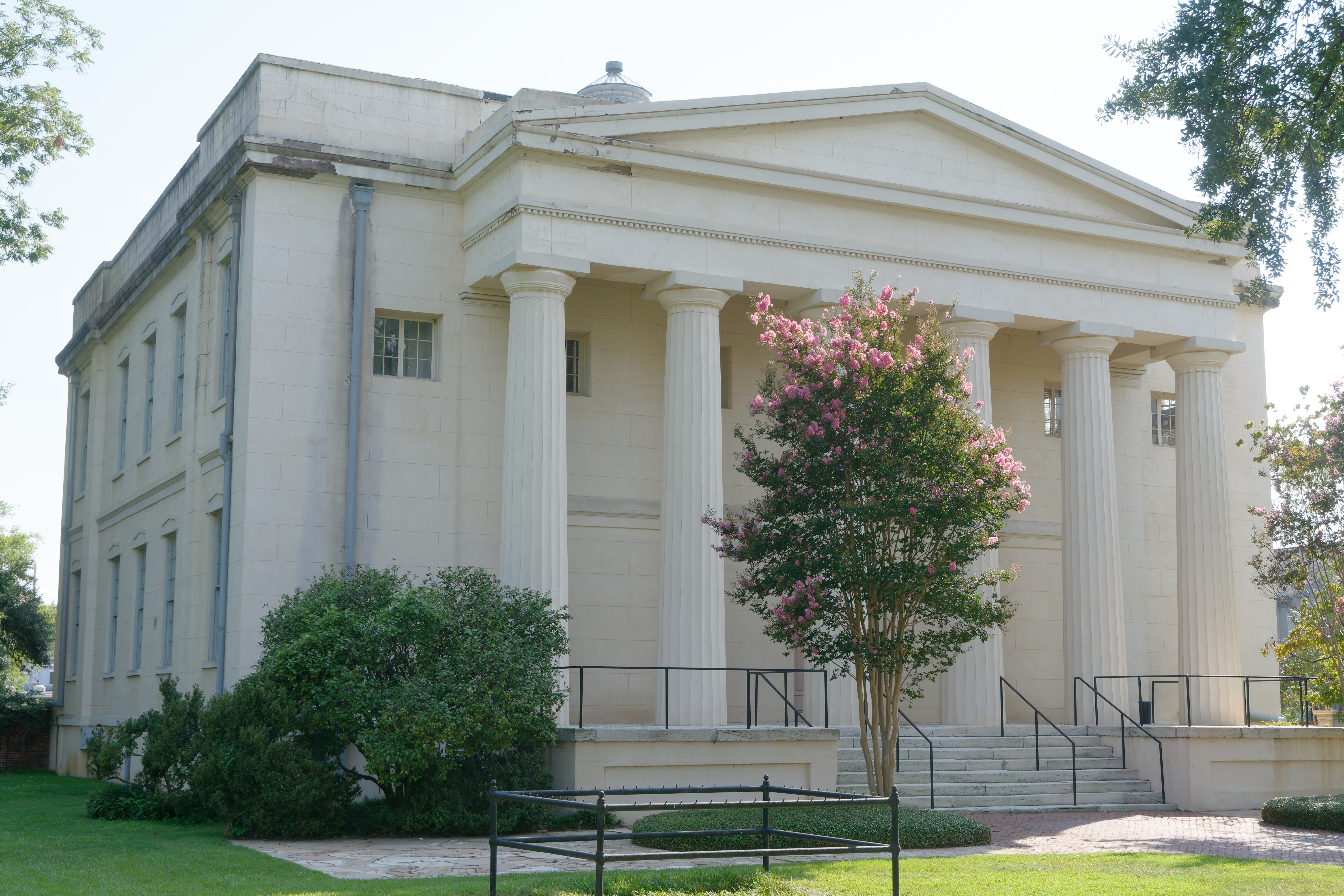 Old Medical College Building, Augusta, Georgia, US Also a National Historic Landmark